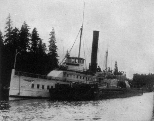 Sidewheeler Yosemite wrecked at Port Orchard Narrows, near Bremerton, Washington, July 1909, with salvage barge alongside.